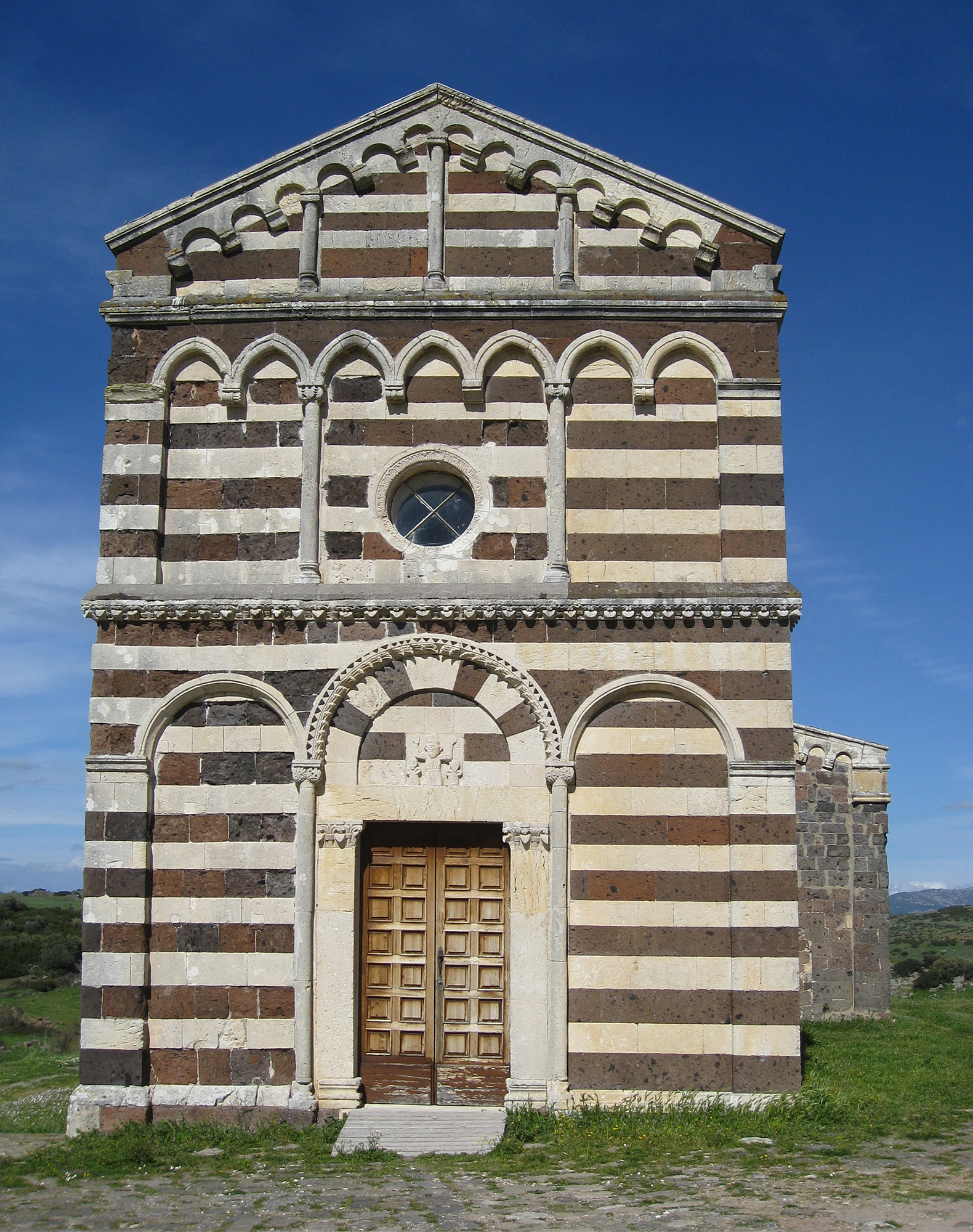 Facade of the Romanesque Church San Pietro di Simbranos, Province Sassari, Sardinia, Italy